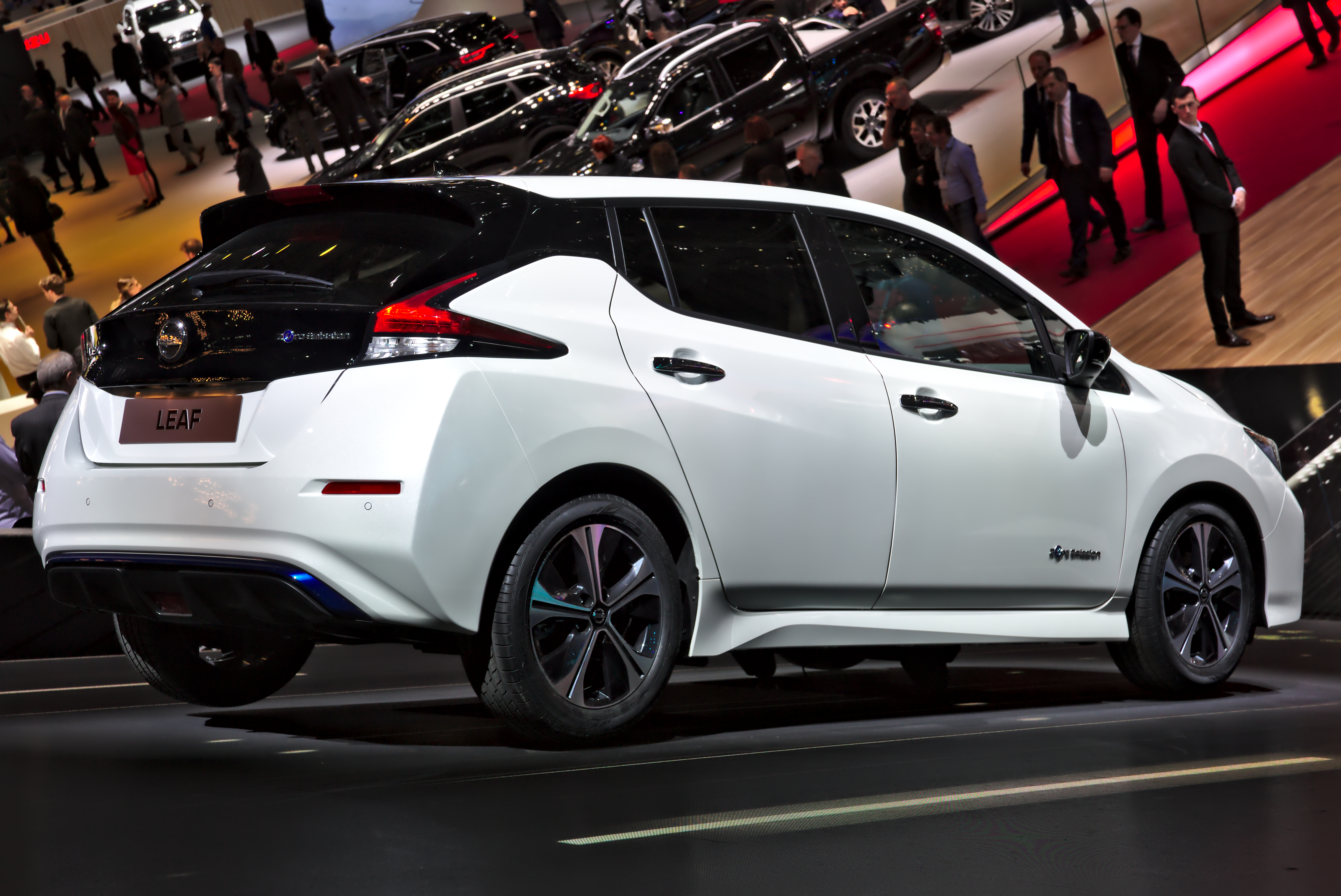 Nissan Leaf at Geneva Motorshow 2018